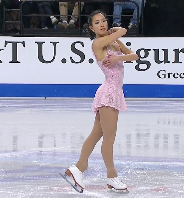 Joelle Forte performs her free skate at the 2011 US Figure Skating Championships